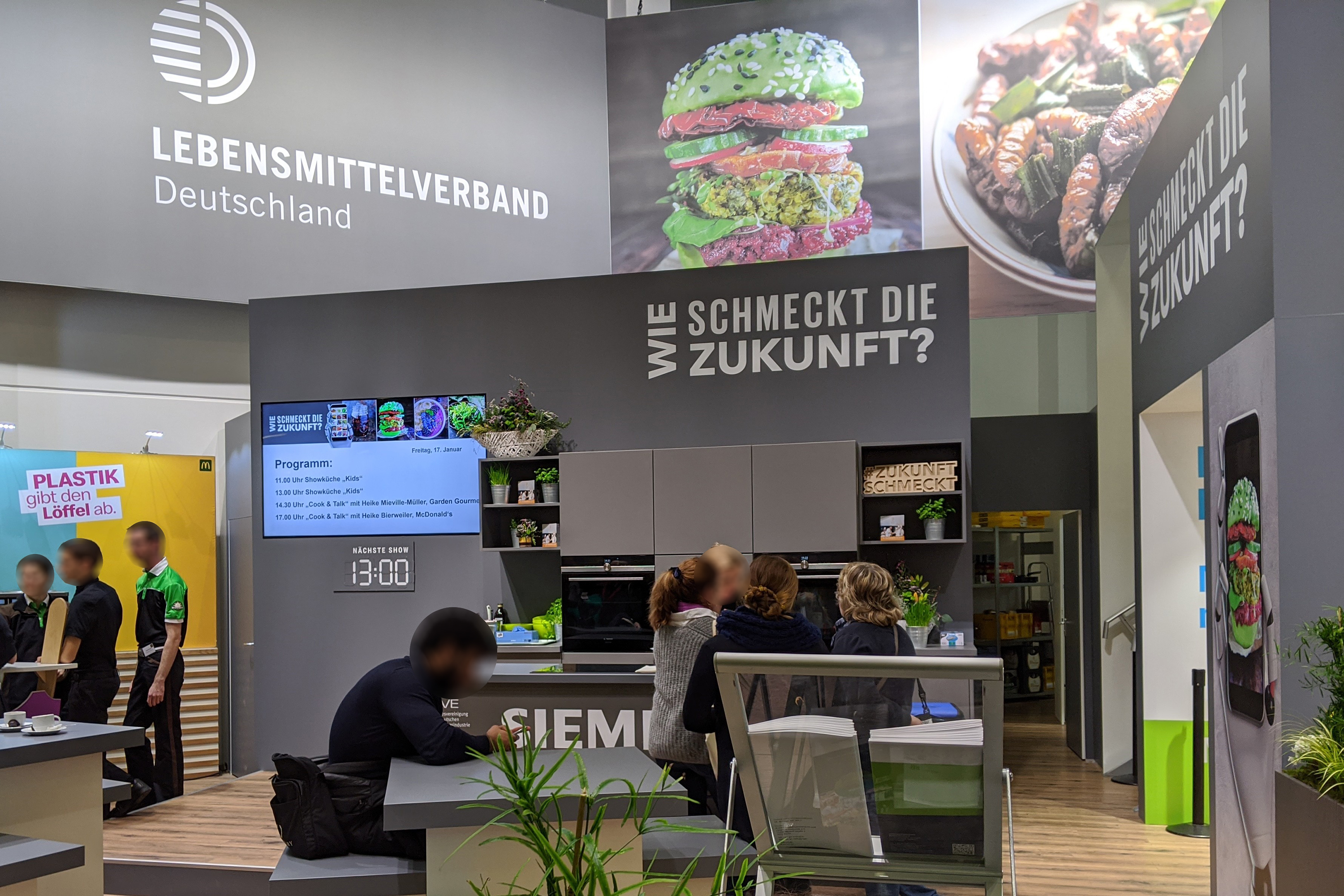 Food Federation Germany's exhibition booth at International Green Week 2020 in Berlin